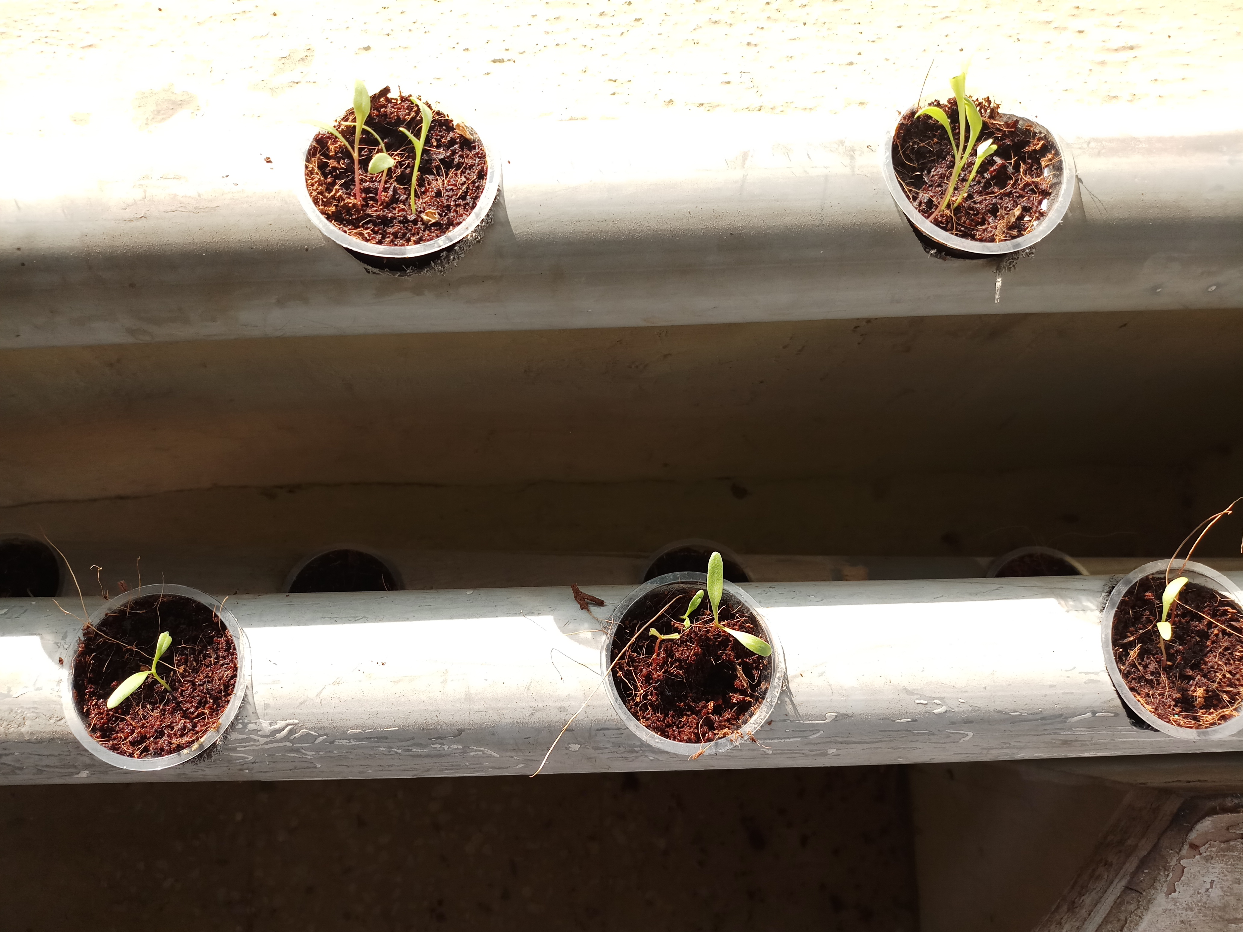 sapling of spinach grown in aquaponics